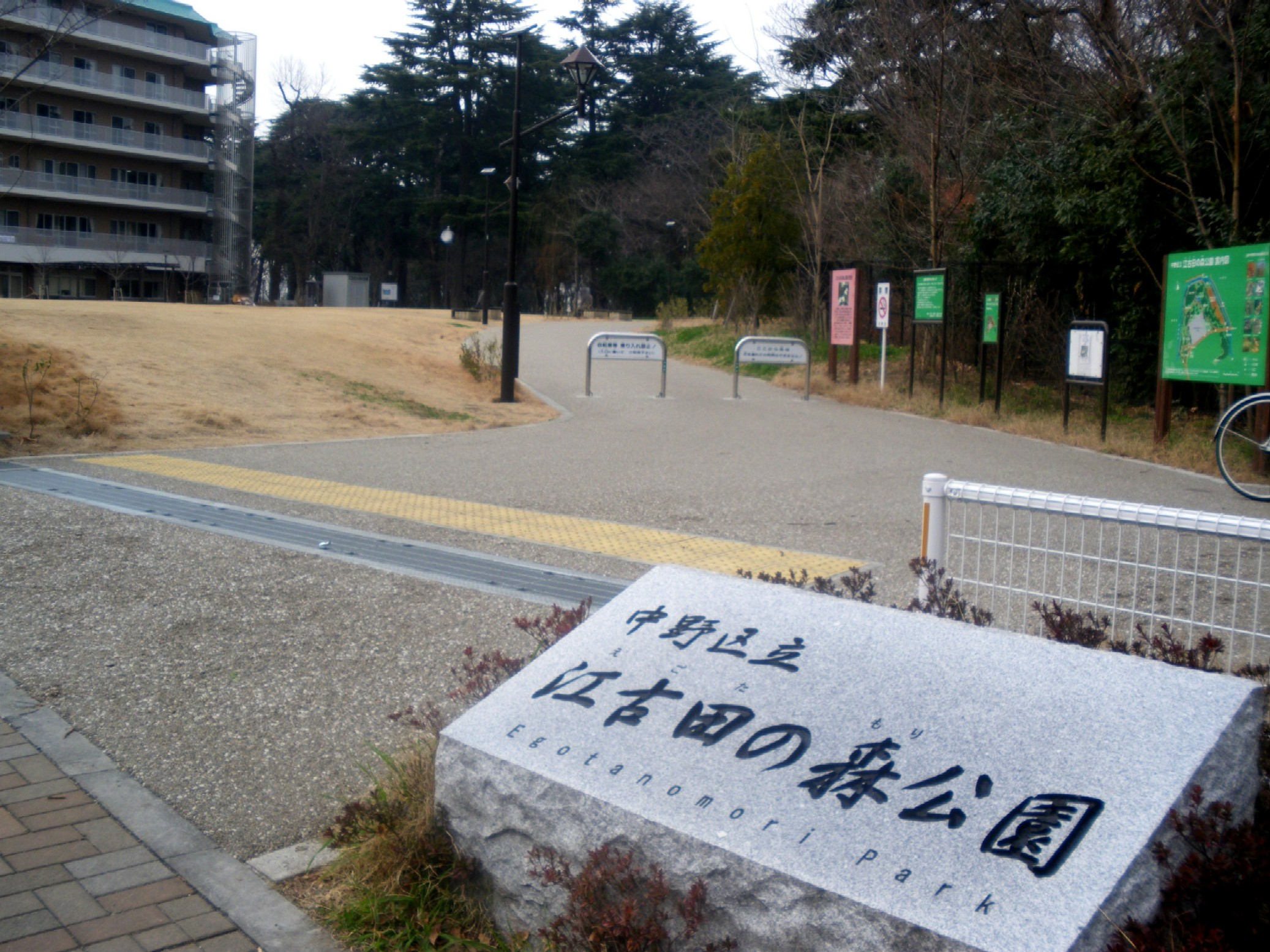 A photo the entrance of Egota no Mori Park, Egota,Nakano-ku,Tokyo,Japan.